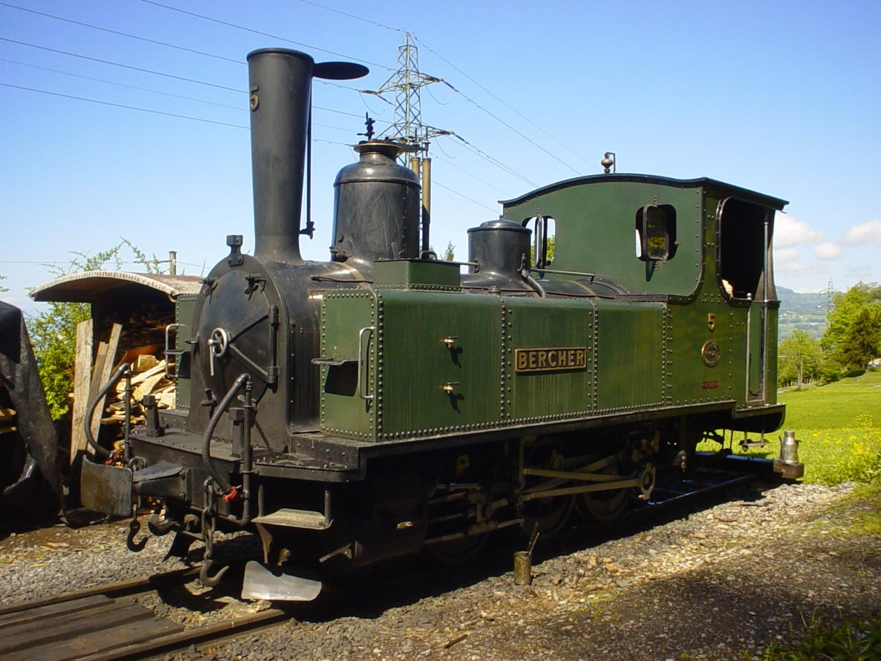 Steam locomotive G 3/3 n° 5 Bercher of the Lausanne–Echallens–Bercher railway (LEB) by chemin de fer-musée Blonay-Chamby (BC) in summer 2003 at Chamby-Musée (Chaulin).